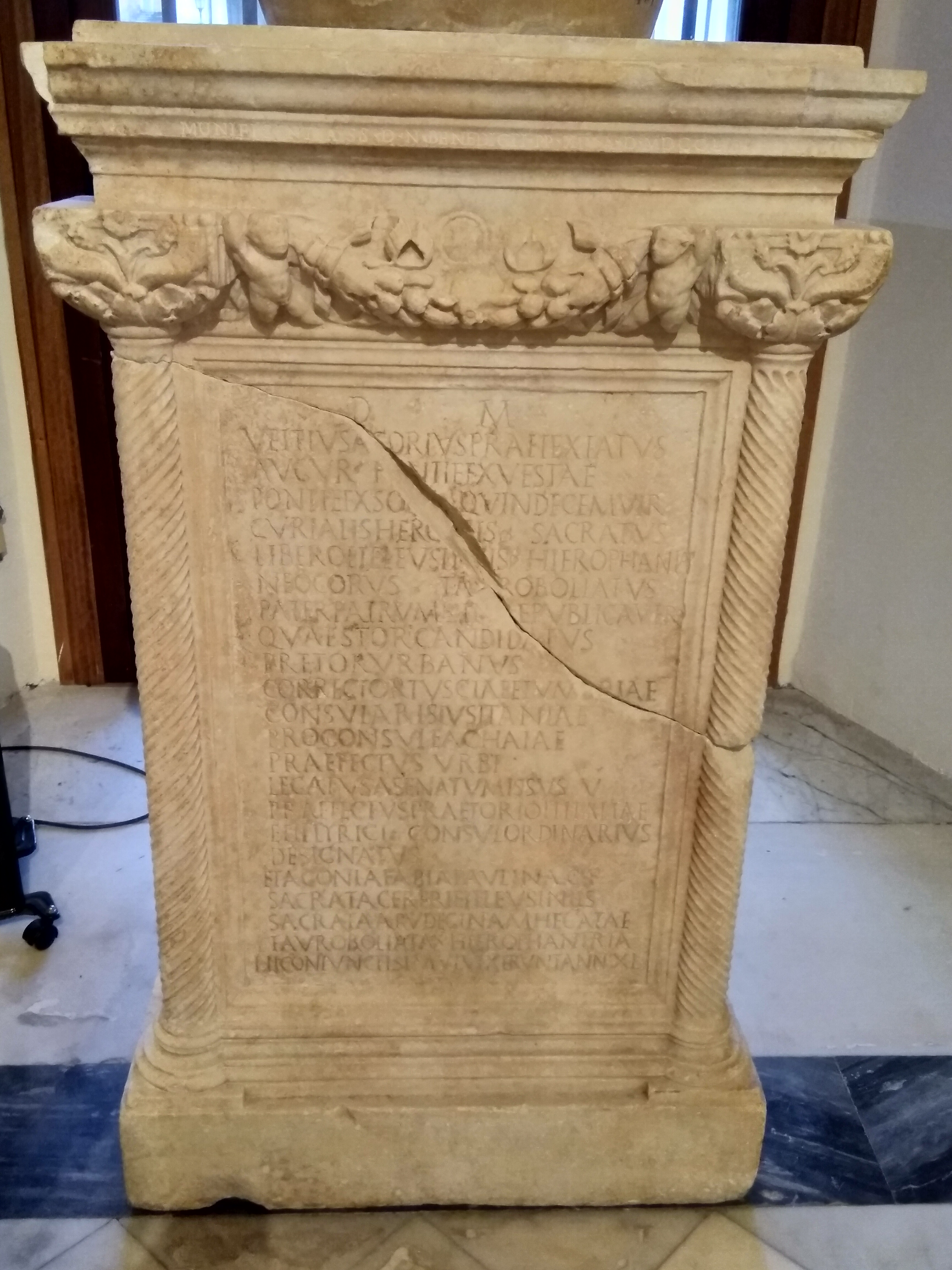 Base to the statue erected to Vettius Agorius Praetextatus - front of the base, with the principal inscription Roma, Musei Capitolini, piano terra, III stanza a destra, NCE 2543 CIL VI 1779